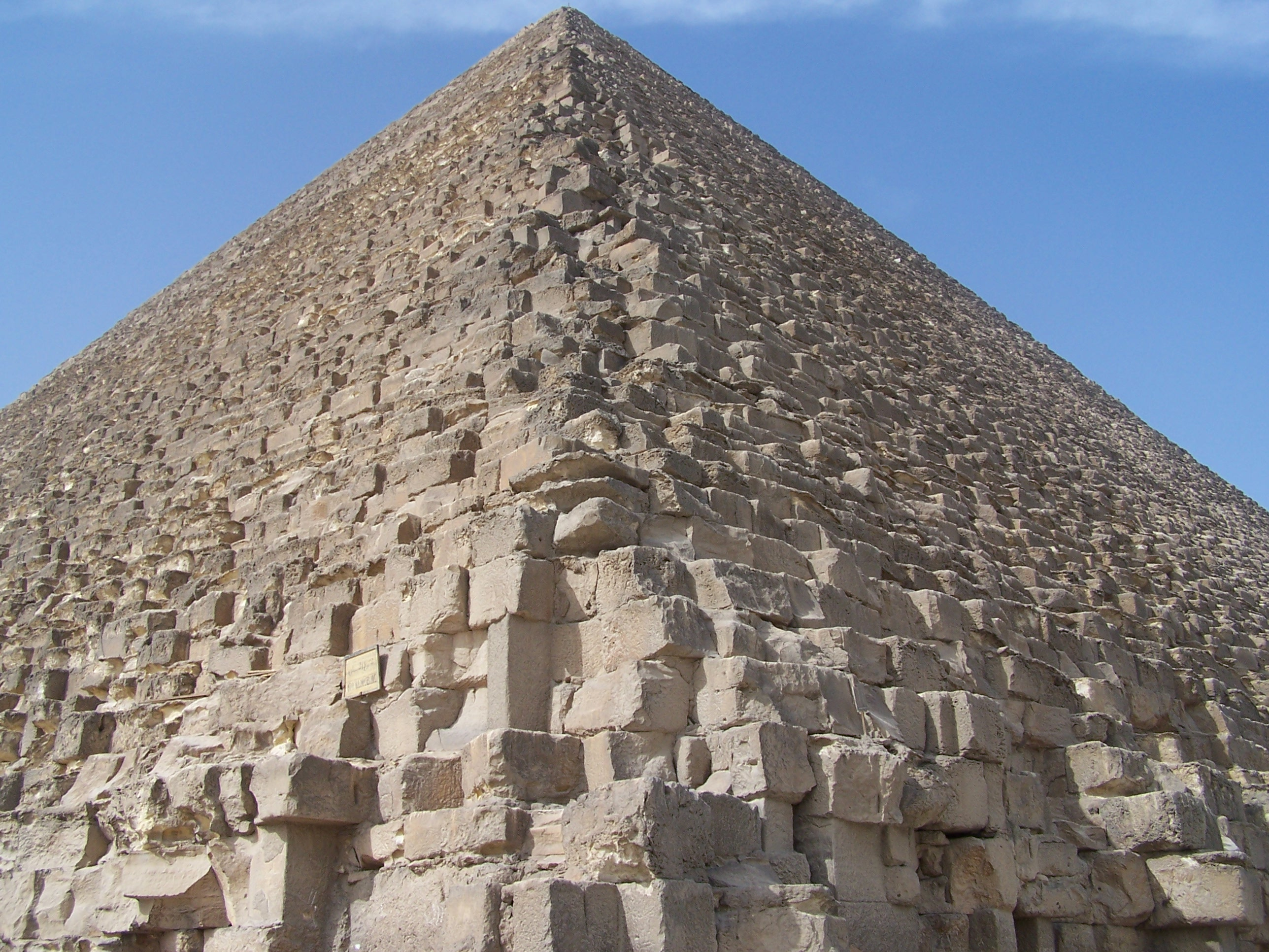 Pyramid of Khafre / Pyramid of Chefren